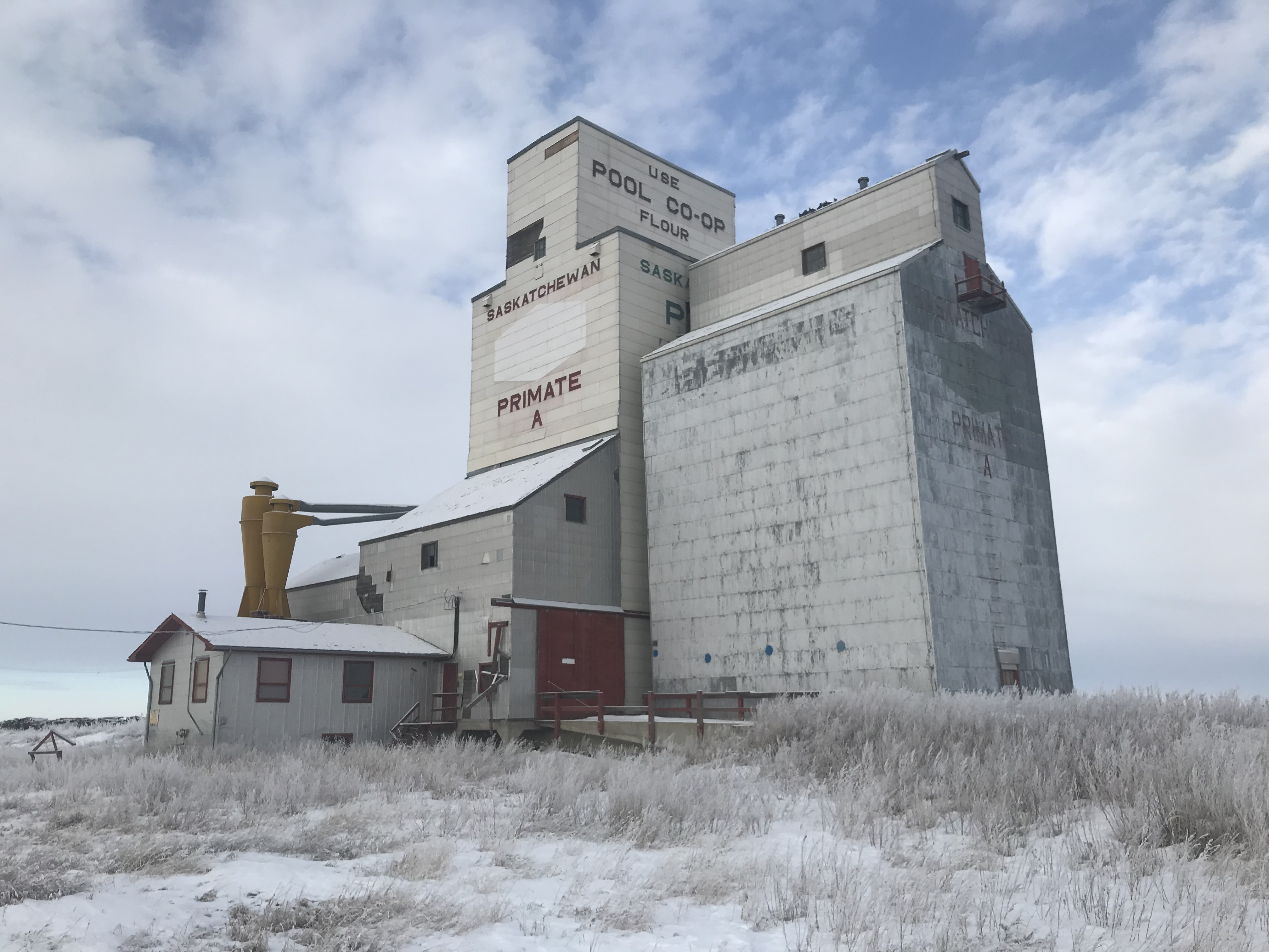 Primate Saskatchewan Grain elevator 2017